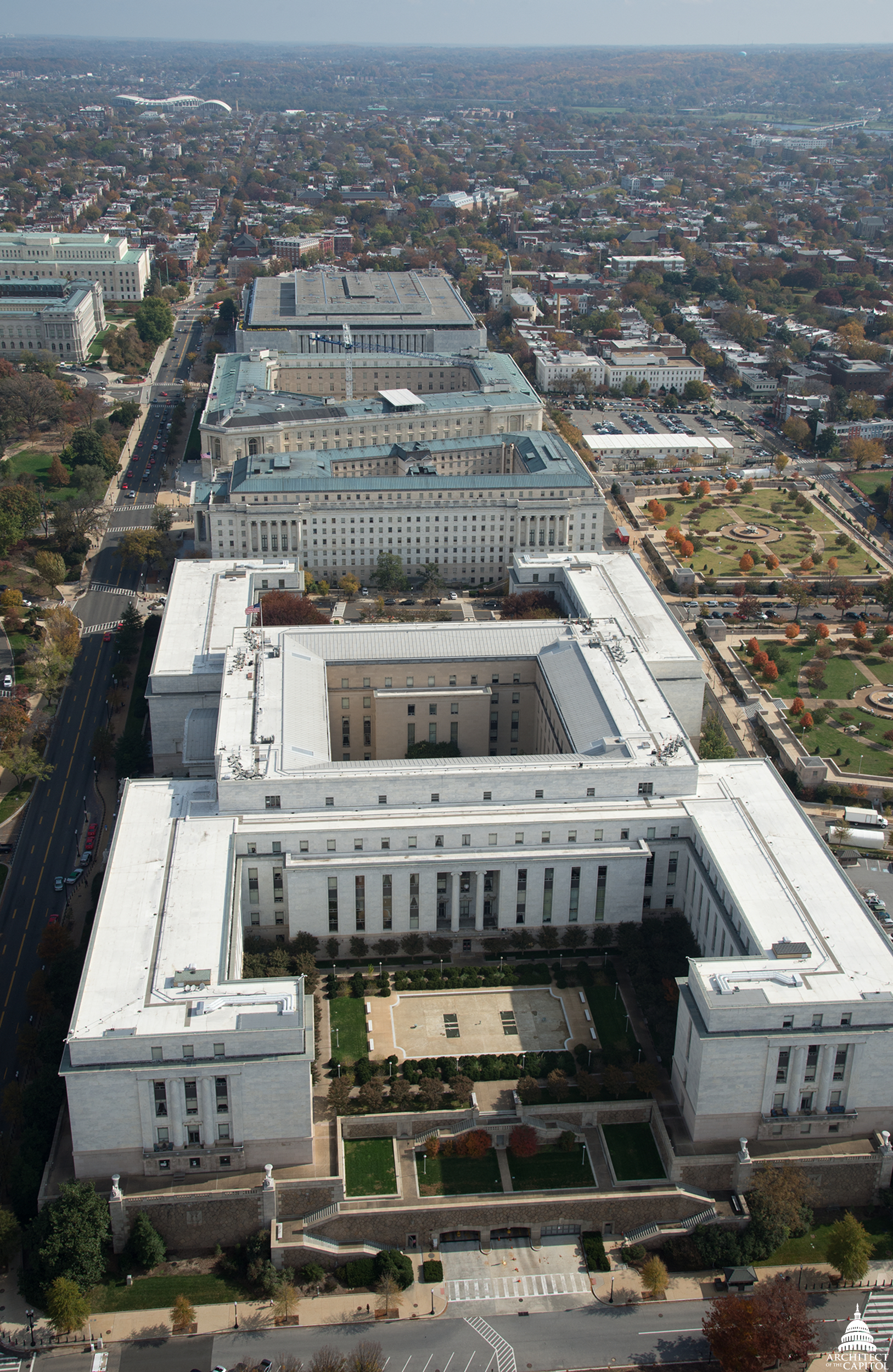 Front to Back: Rayburn Building, Longworth Building, Cannon Building; plus, James Madison Memorial Building (Library of Congress). Work during the initial phase of the Cannon Renewal Project includes updating building utilities, primarily in the basement and the moat area of the courtyard. This phase enables future phases to connect the new building-wide utility services with minimal shutdowns and disturbances. More at